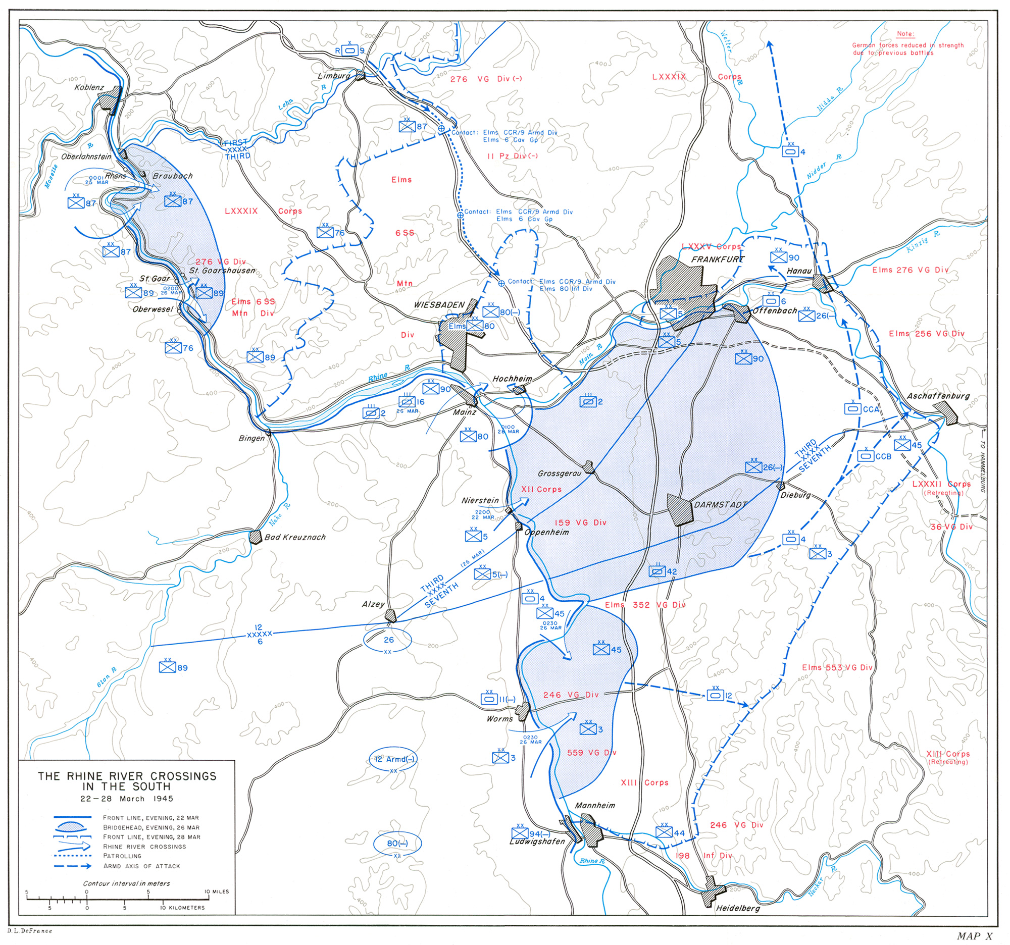 Map of the U.S. Rhine river crossings near Oppenheim in March 1945.